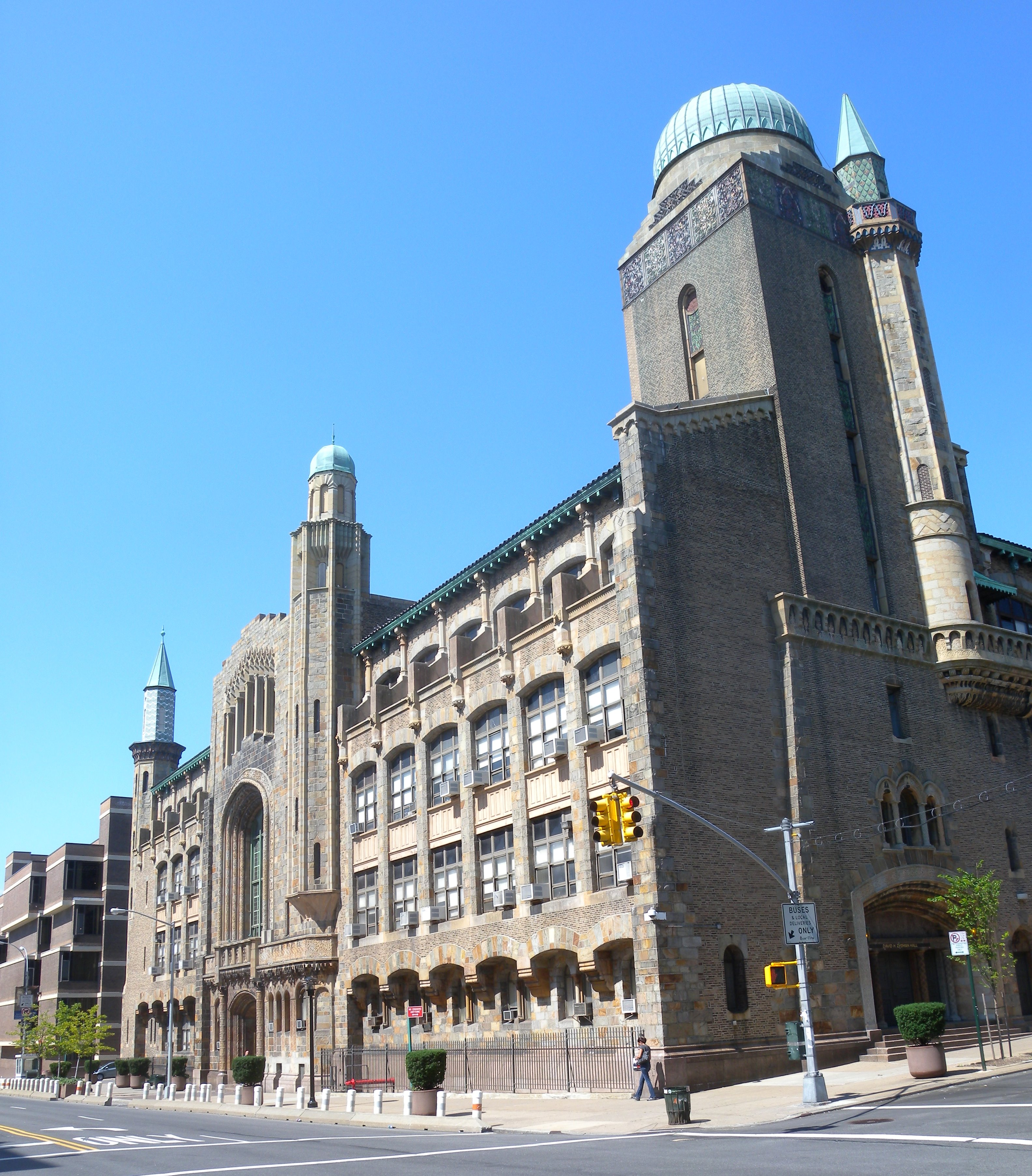 Looking southwest across Amsterdam Avenue and 187th Street at Zysman Hall on a sunny morning.